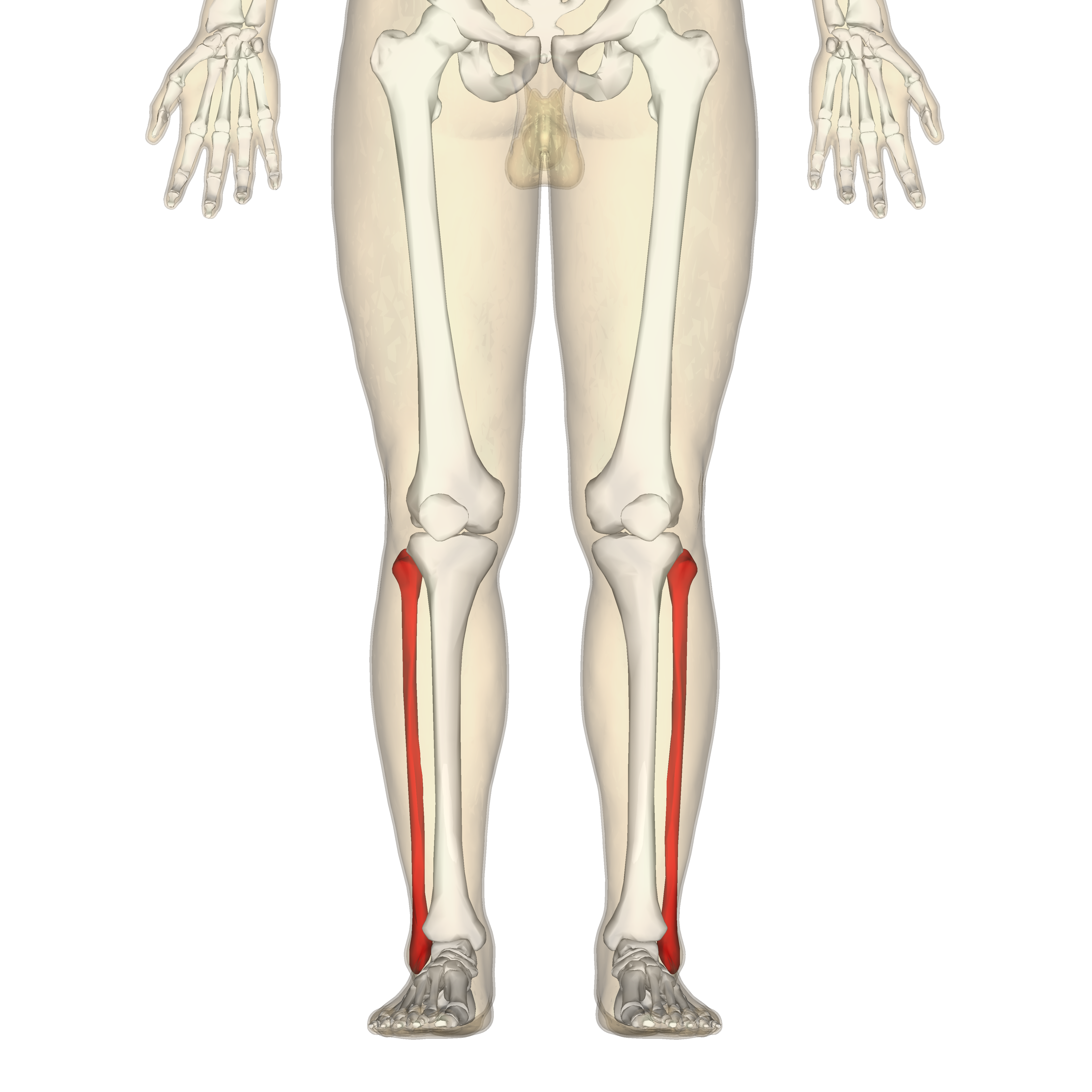 Fibula